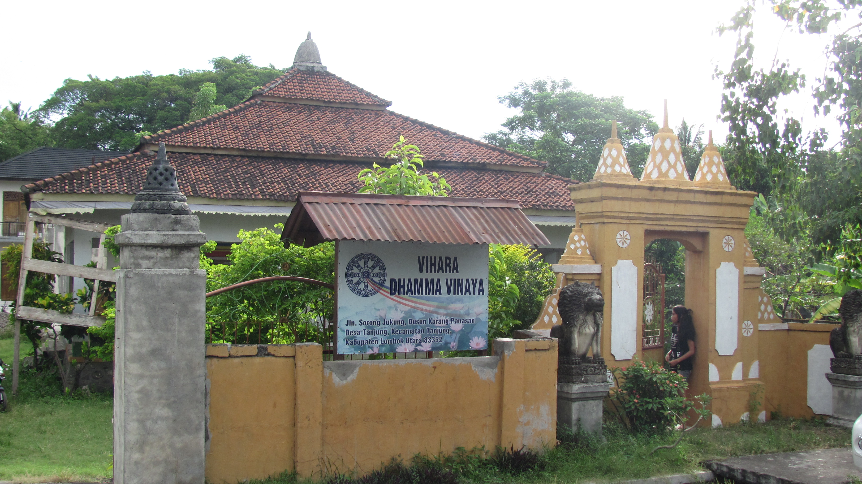 Buddhist Temple Vihara Dhamma Vohara in Tanjung, Lombok, Indonesia